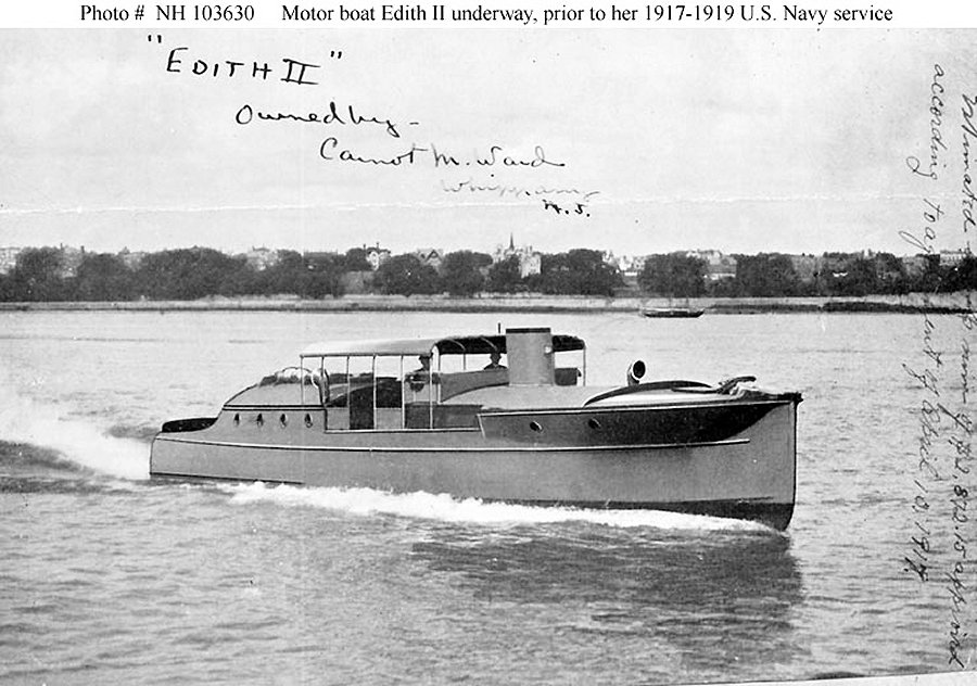 Motorboat Edith II, prior to her United States Navy service as patrol vessel USS Edith II (SP-296)